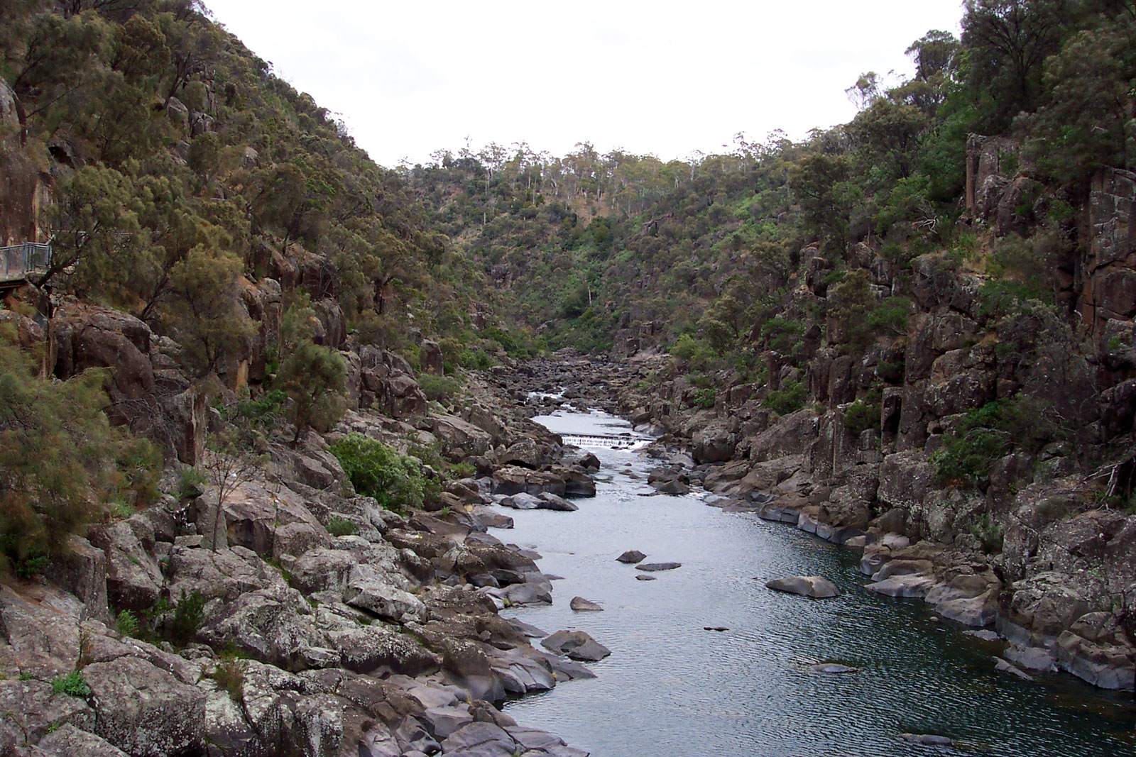 Cataract Gorge, Tasmania Taken by Enoch Lau on 9 January 2004. As a courtesy, please let me know if you alter this image or this image description page. Original filename was 100_2131.JPG.